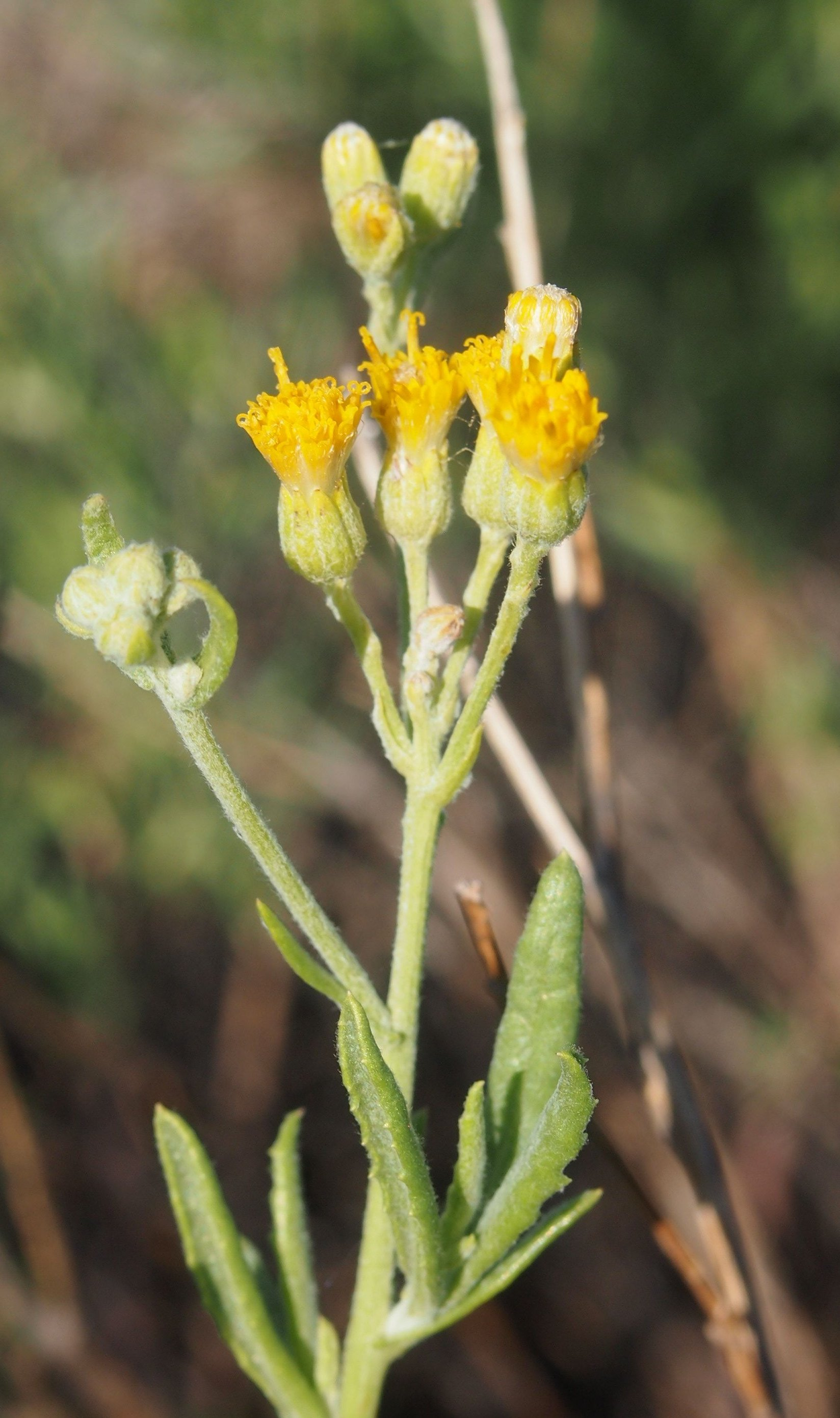 Senecio lanibracteus flowers